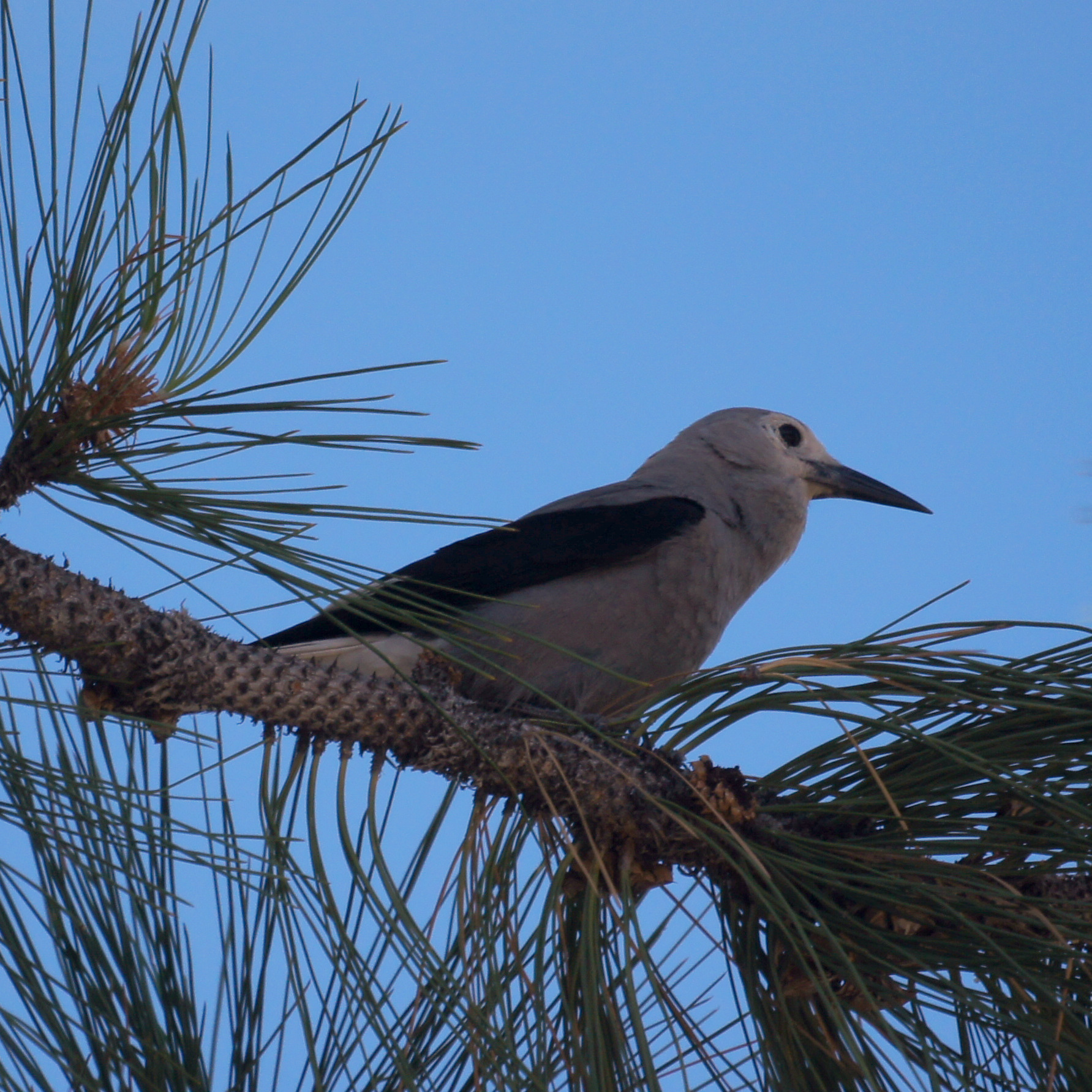 Clark's Nutcracker (Nucifraga columbiana), near Onyx summit, in the San Bernardino National Forest.